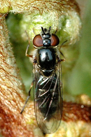 Picture taken in Commanster, Belgian High Ardennes . Species: Platycheirus clypeatus